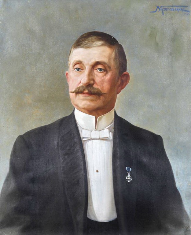 Portrait, 1907